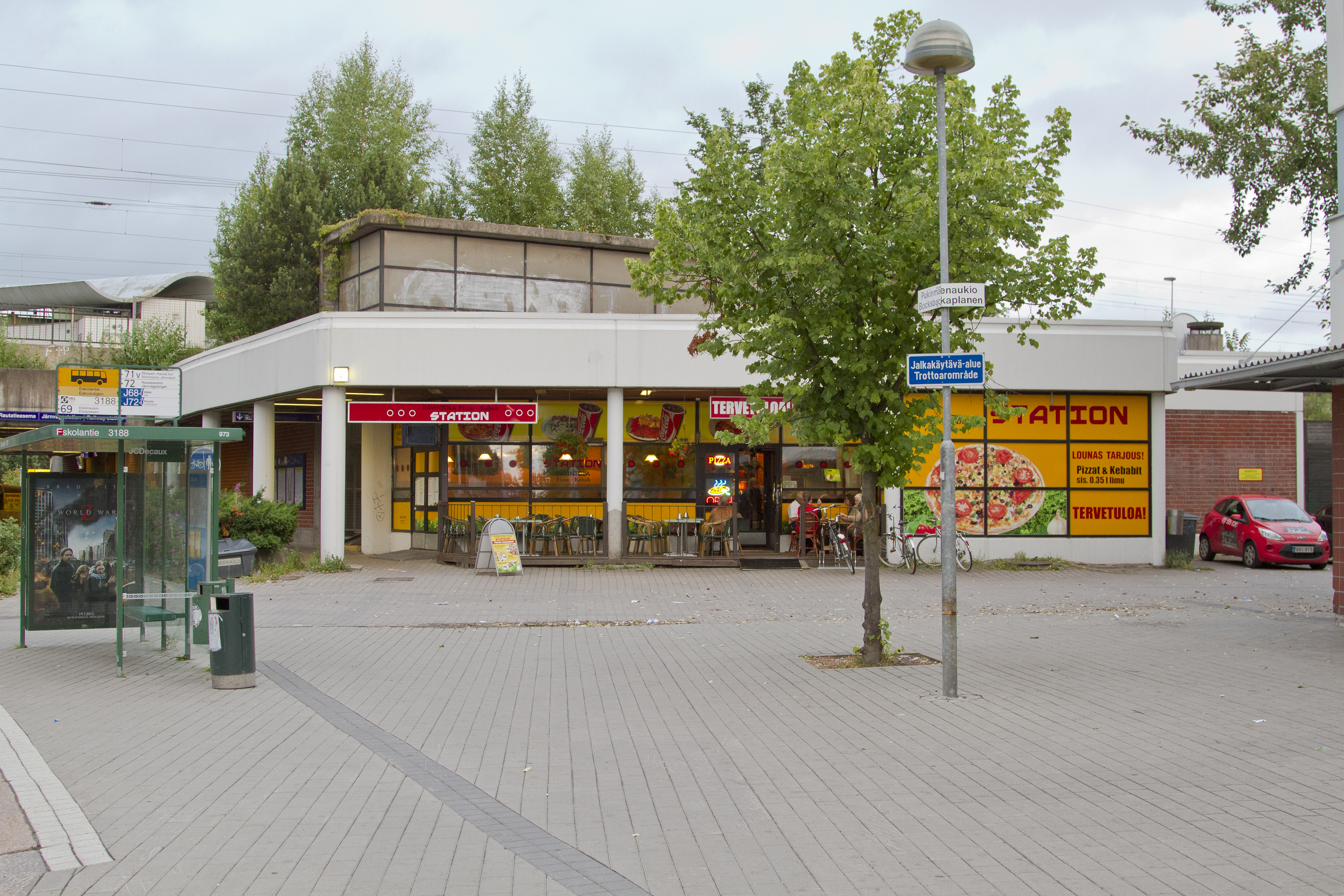 Restaurant Station in Pukinmäki railway station.